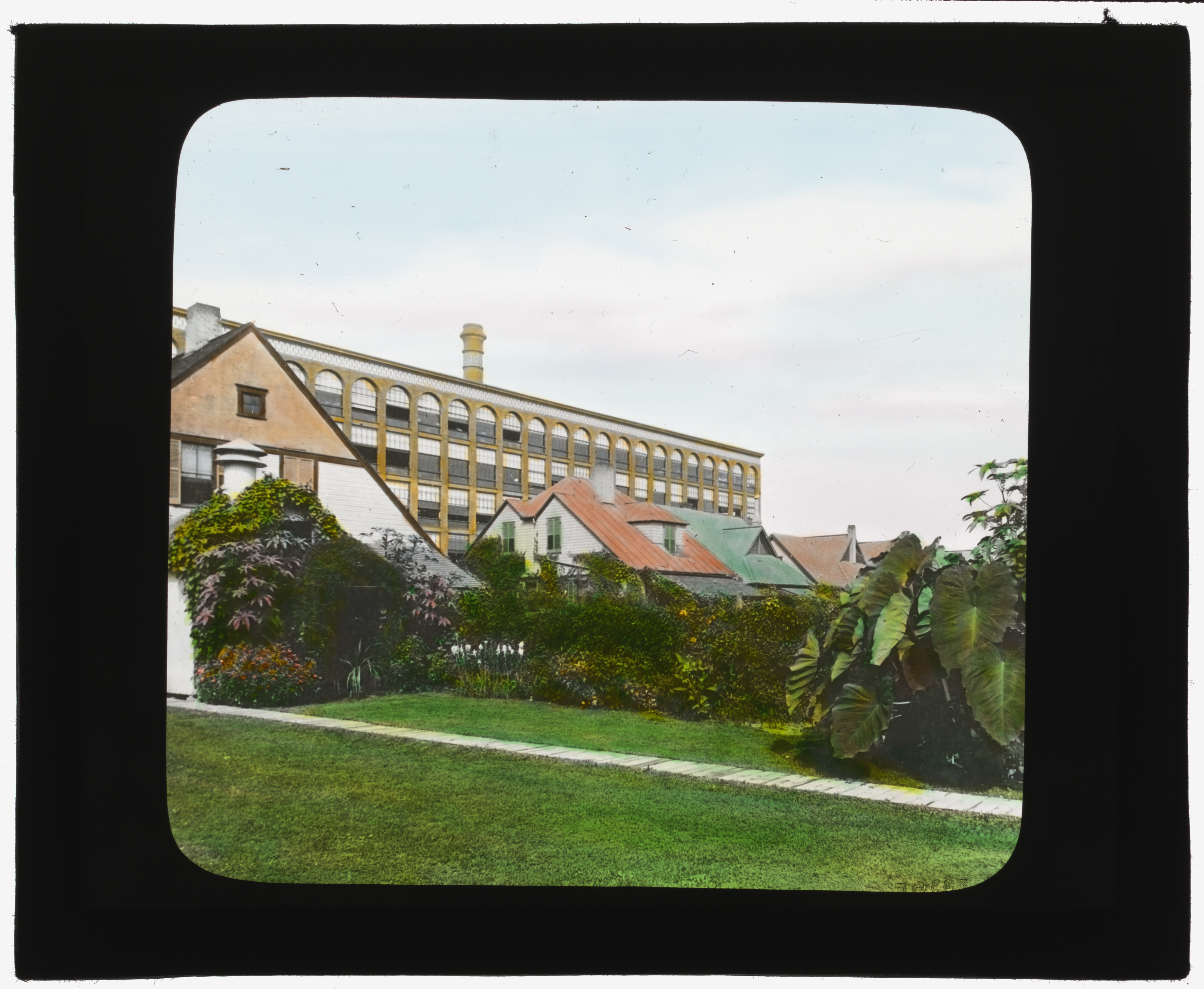 Title: National Cash Register Company, Dayton, Ohio. Worker house gardens after landscaping Abstract/medium: 1 photograph : glass lantern slide, hand-colored ; 3.25 x 4 in.